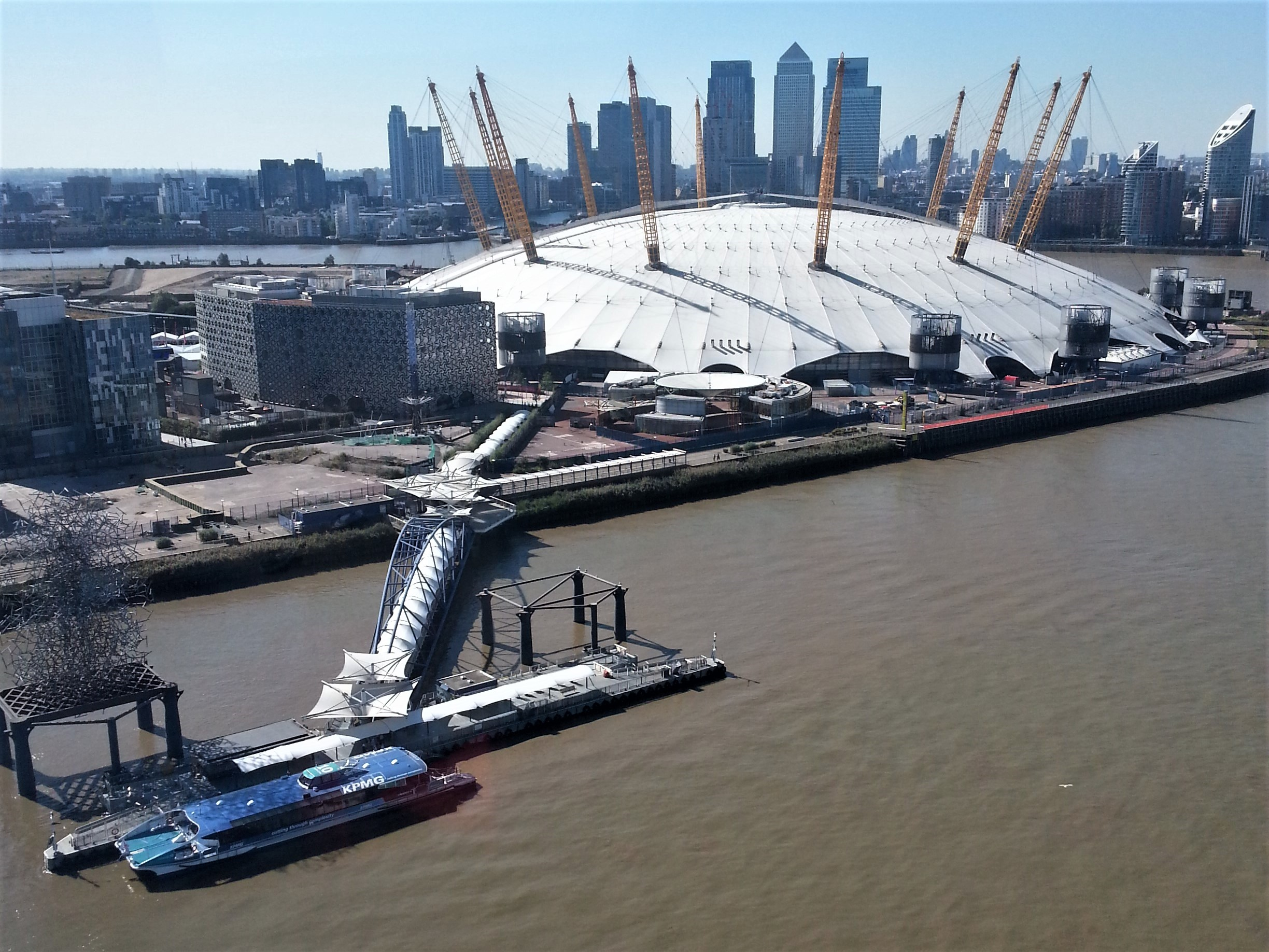 Cropped image of O2 Arena, Greenwich, London from File:O2 arena2.jpg